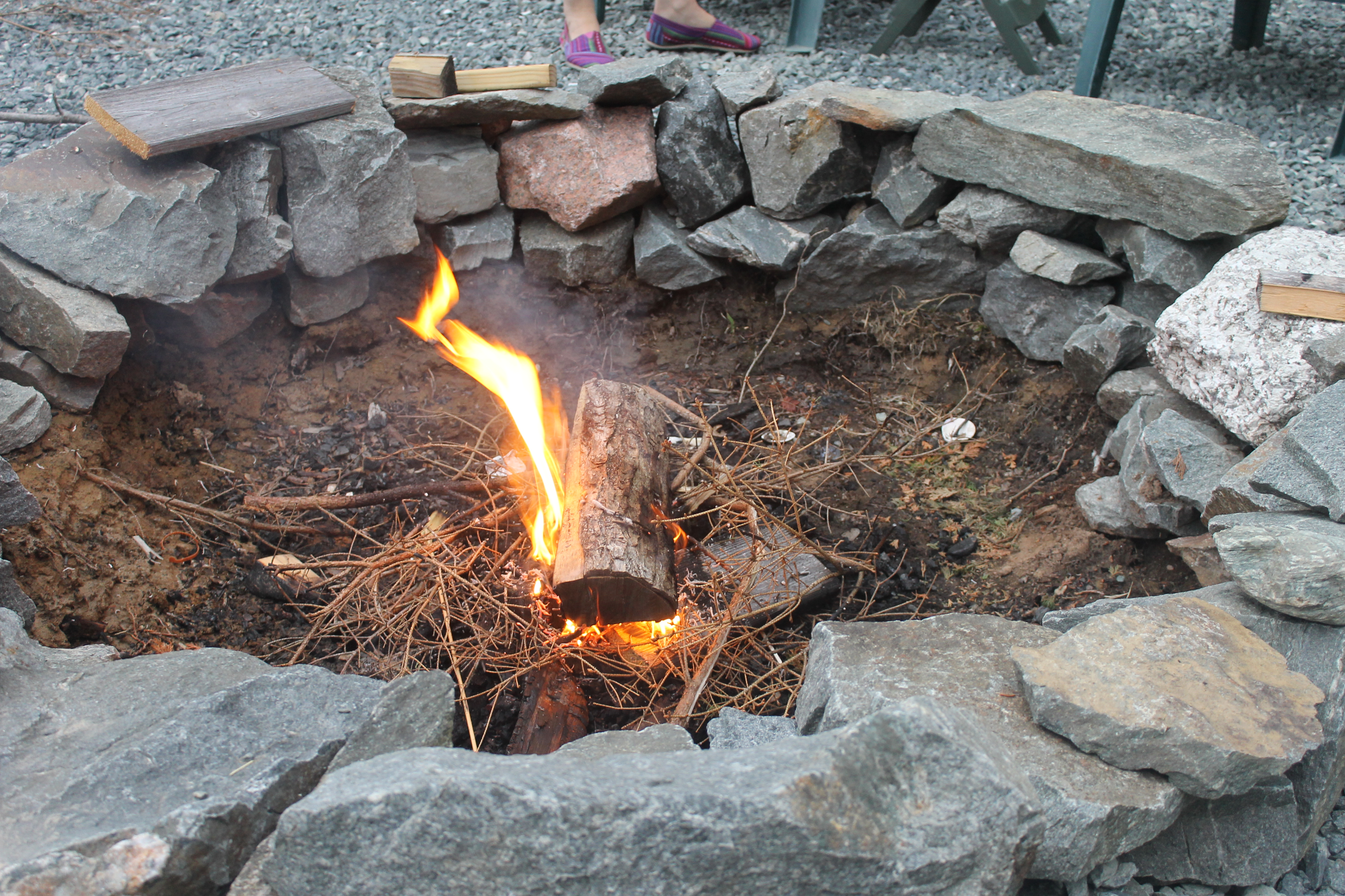 I took photo of kindling to start a campfire with Canon camera.